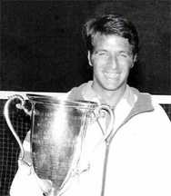 Chris Kinard winning US Badminton Championship